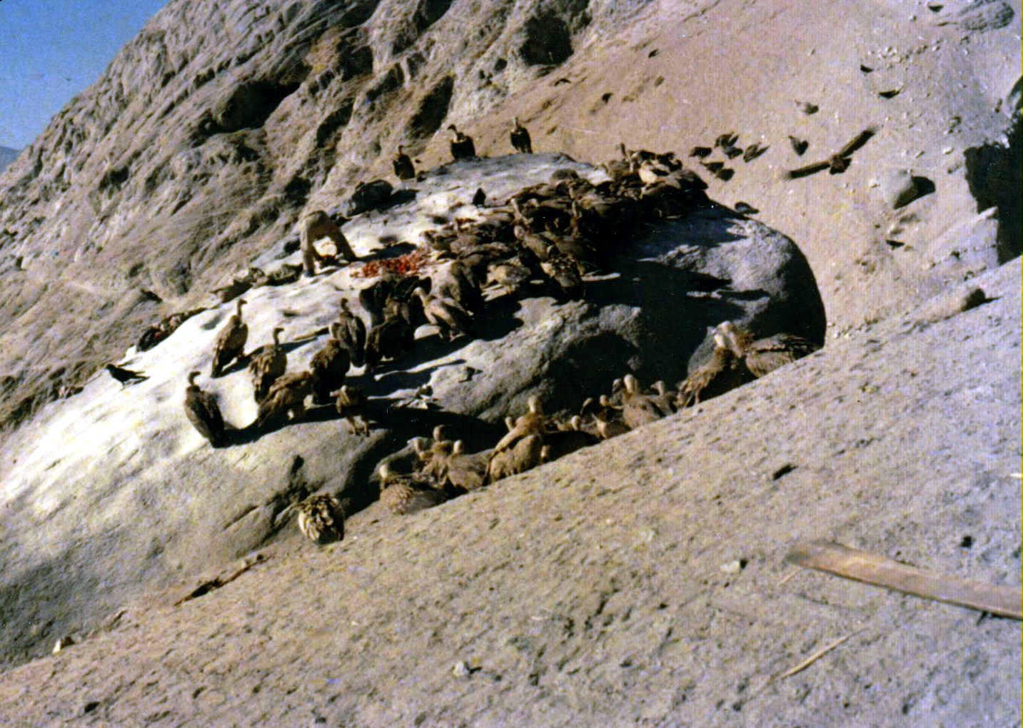 Vultures feeding on the rock used to expose bodies at a sky burial outside Lhasa, Tibet, during the first lunar month, March 1985. Photographs of the sky burial taken with permission of the participants, on condition that no photographs were taken before the vultures were called to eat the bodies of the three deceased persons. Photo scanned from a print.